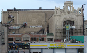 Photo taken 2005, released to public domain.